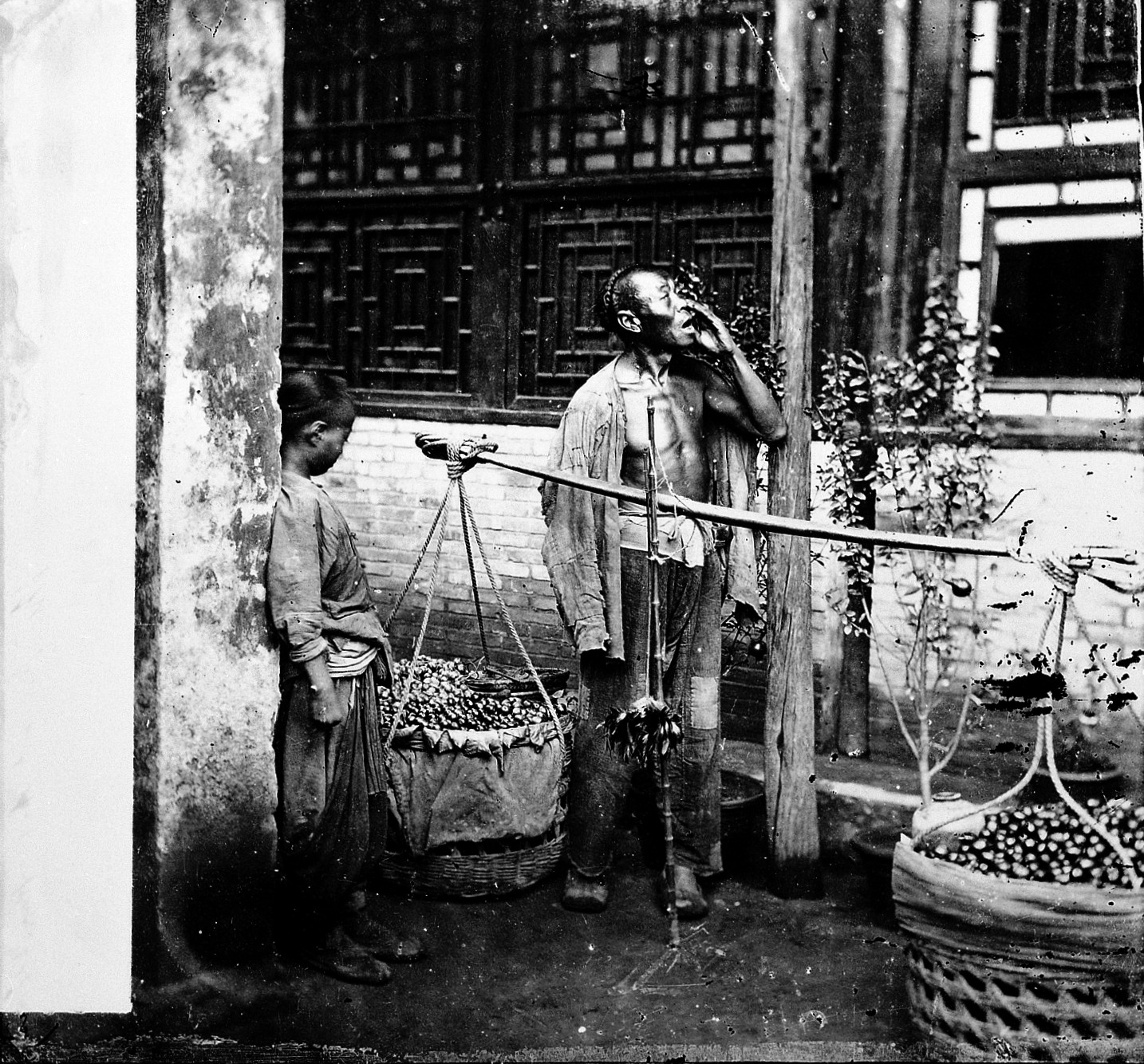 A Peking costermonger, with laden panniers, selling fruit outside a house Iconographic Collections Keywords: Basket; Calling; Selling; Tradesman; China; John Thomson; John Thomson